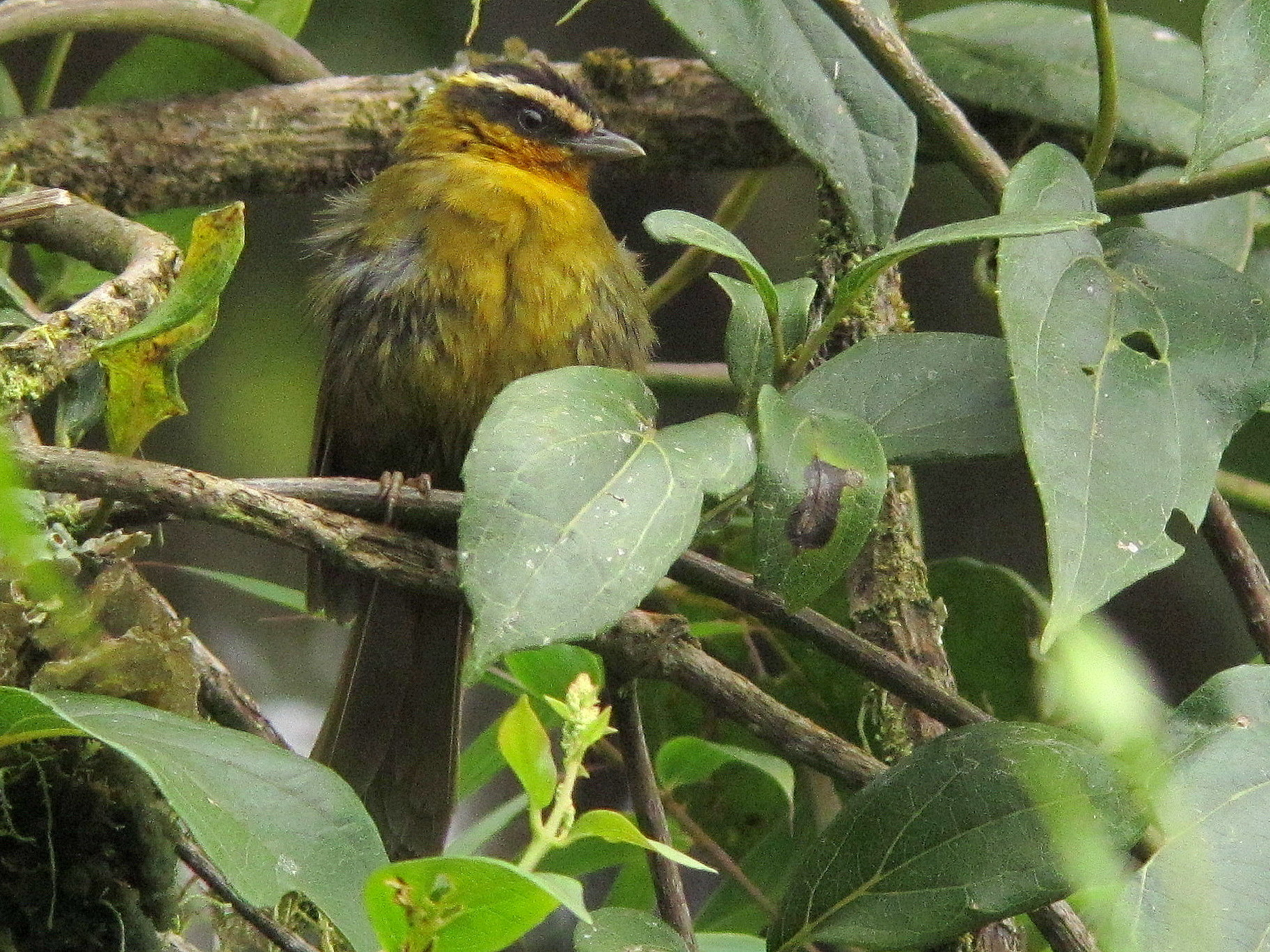 Digiscoped using Swarovski ATX 65mm + Canon SX210 IS PowerShot + Swarovski CT Travel carbon tripod (DH 101 Head)